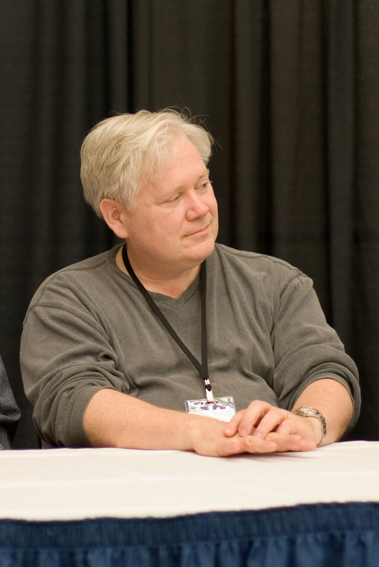 Paul Chadwick at the Stumptown Comics Fest 2006. Cropped from an image featuring Steve Lieber, Paul Chadwick, and Kazu Kibuishi speak on graphic novelling.